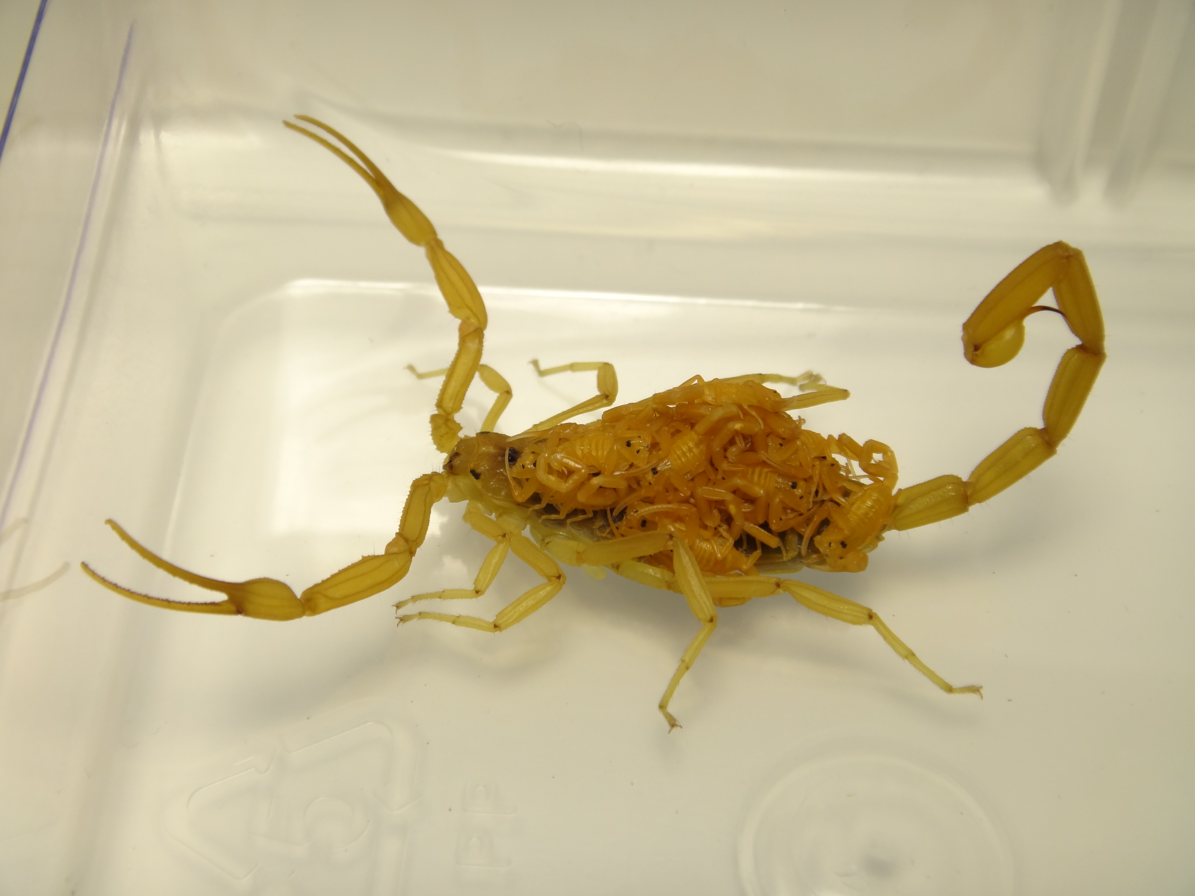 Photo of an Arizona bark scorpion, mom and babies, taken in the Phoenix, AZ area.